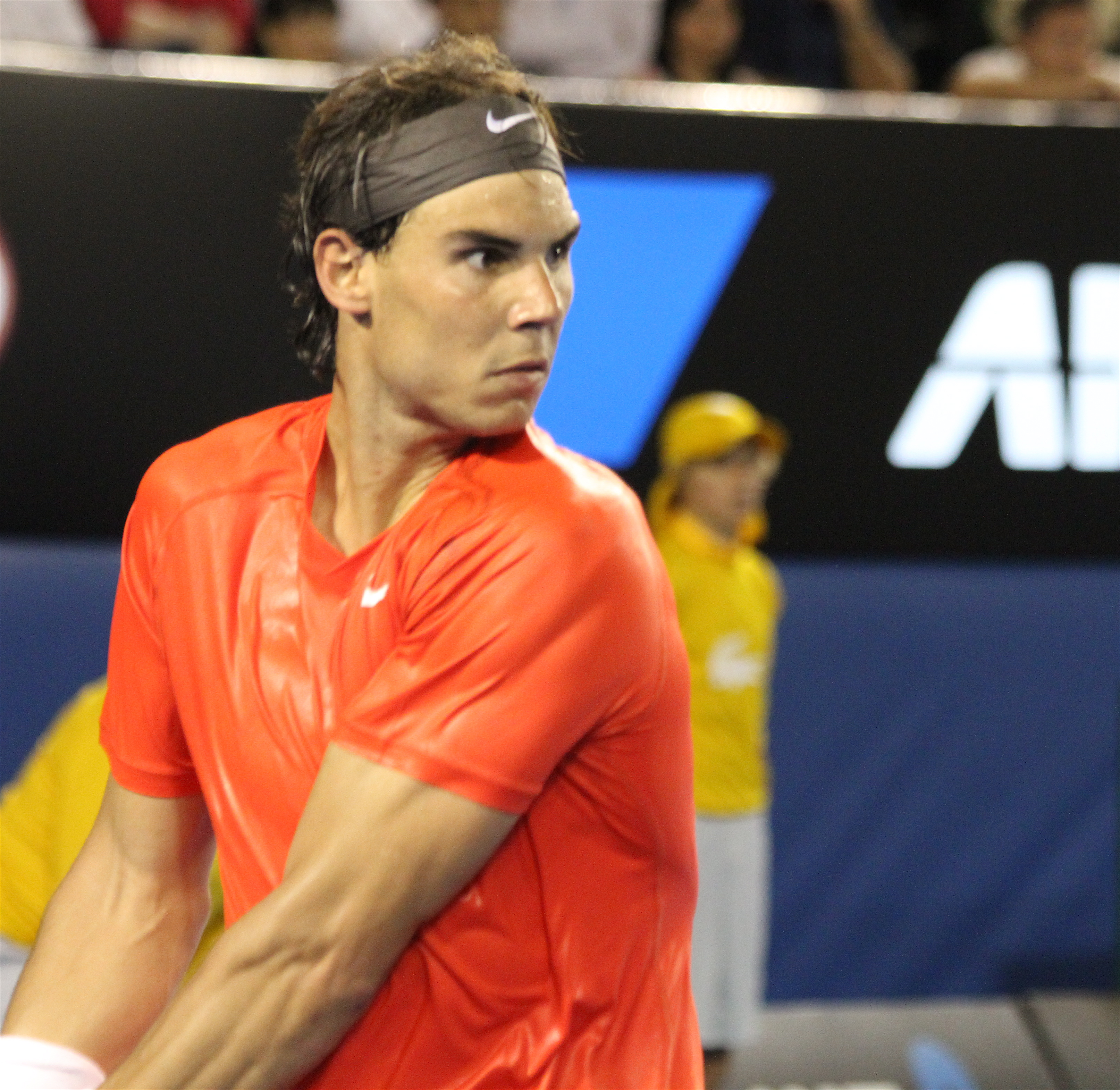 Rafael Nadal hits a backhand against Bernard Tomic in the R3 of the 2011 AO. Note look how much he is sweating.